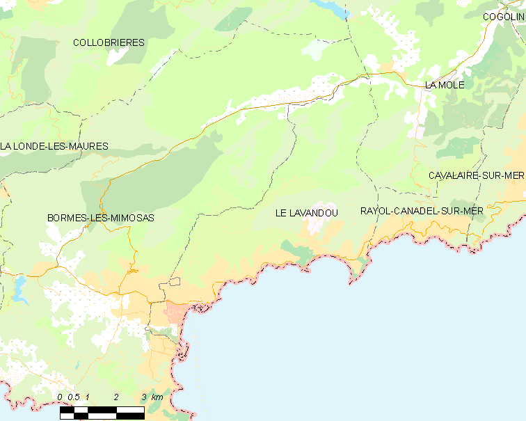 Map of French municipality Le Lavandou